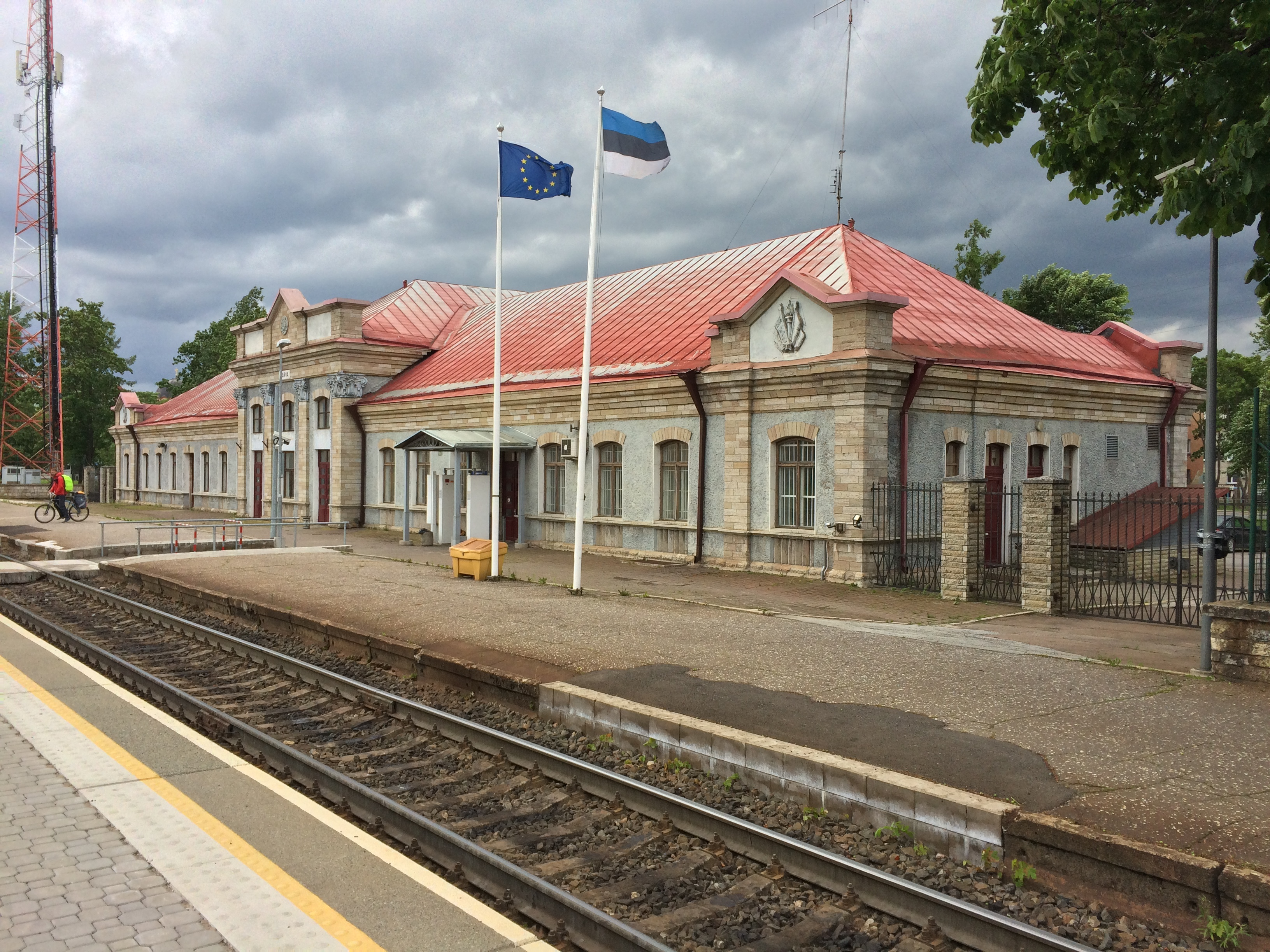 Narva, Estonia